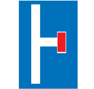 Diagram of road signs of Luxembourg